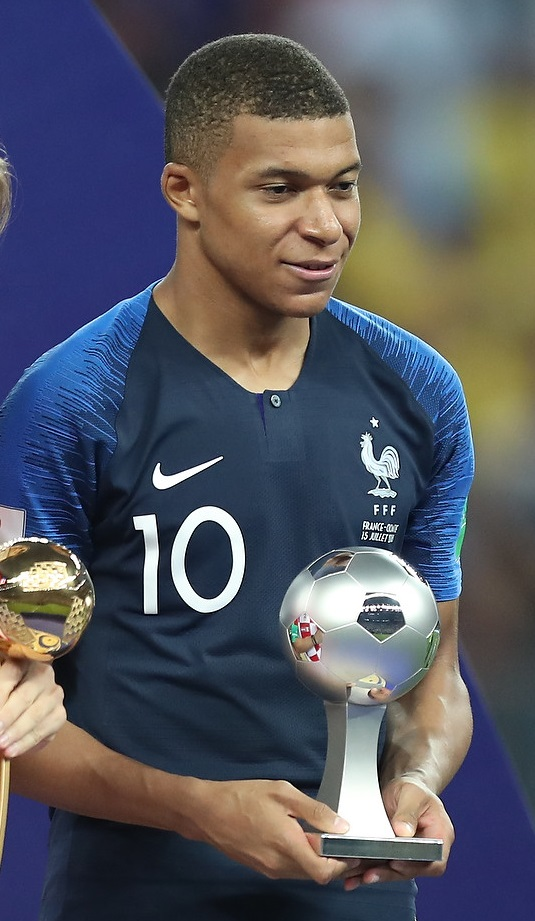 Kylian Mbappé with France receiving his Best Young Player Award in the 2018 FIFA World Cup